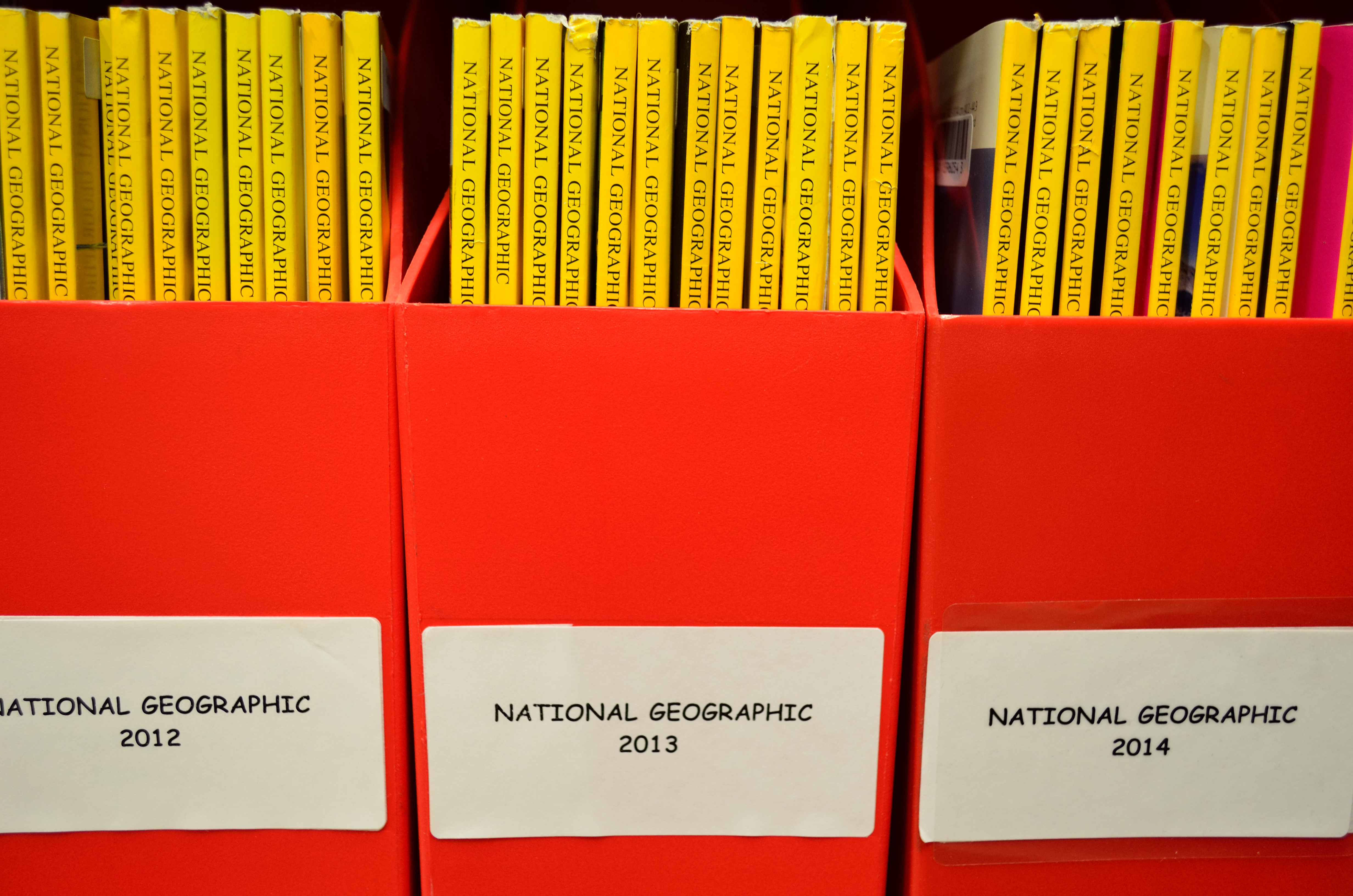 National Geographic in a library